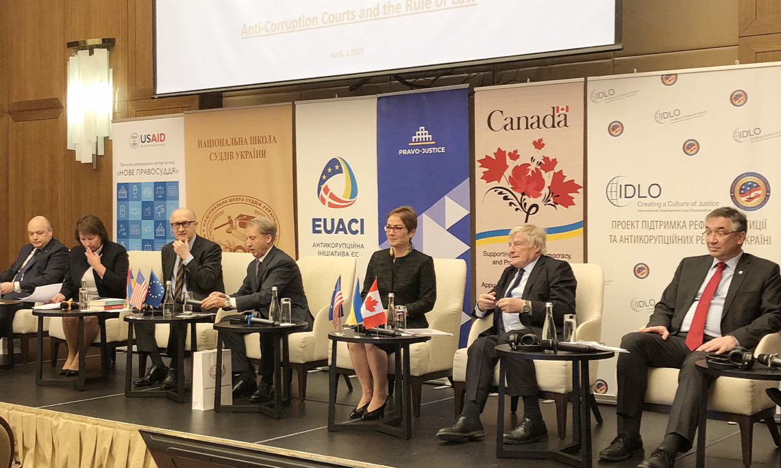 Ambassador Yovanovitch was well known for her anti-corruption work and this apparently made her a target. She was recalled from her post and told to get on the next flight out of the Ukraine the same month this photo was taken at an anti-corruption conference.